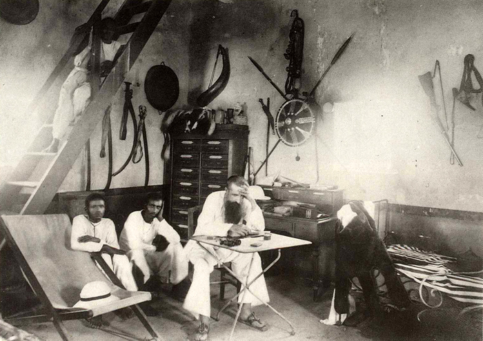 Paul Soleillet chez lui à Obock. Soleillet, de Rivoyre et Brémont furent au nombre des commerçants européens, principalement français, qui implantèrent des maisons de commerce à Obock à partir de 1882. Soleillet est mort à Aden en 1886. Cliché pris lors du séjour du photographe Bidault à Obock en 1882, puis publié à Aden en 1884.